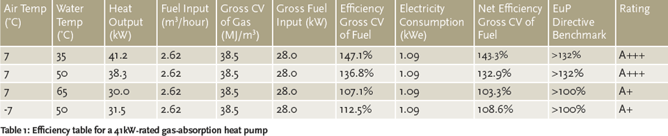 Tablica učinkovitosti apsorpcijske dizalice topline snage 41 kW